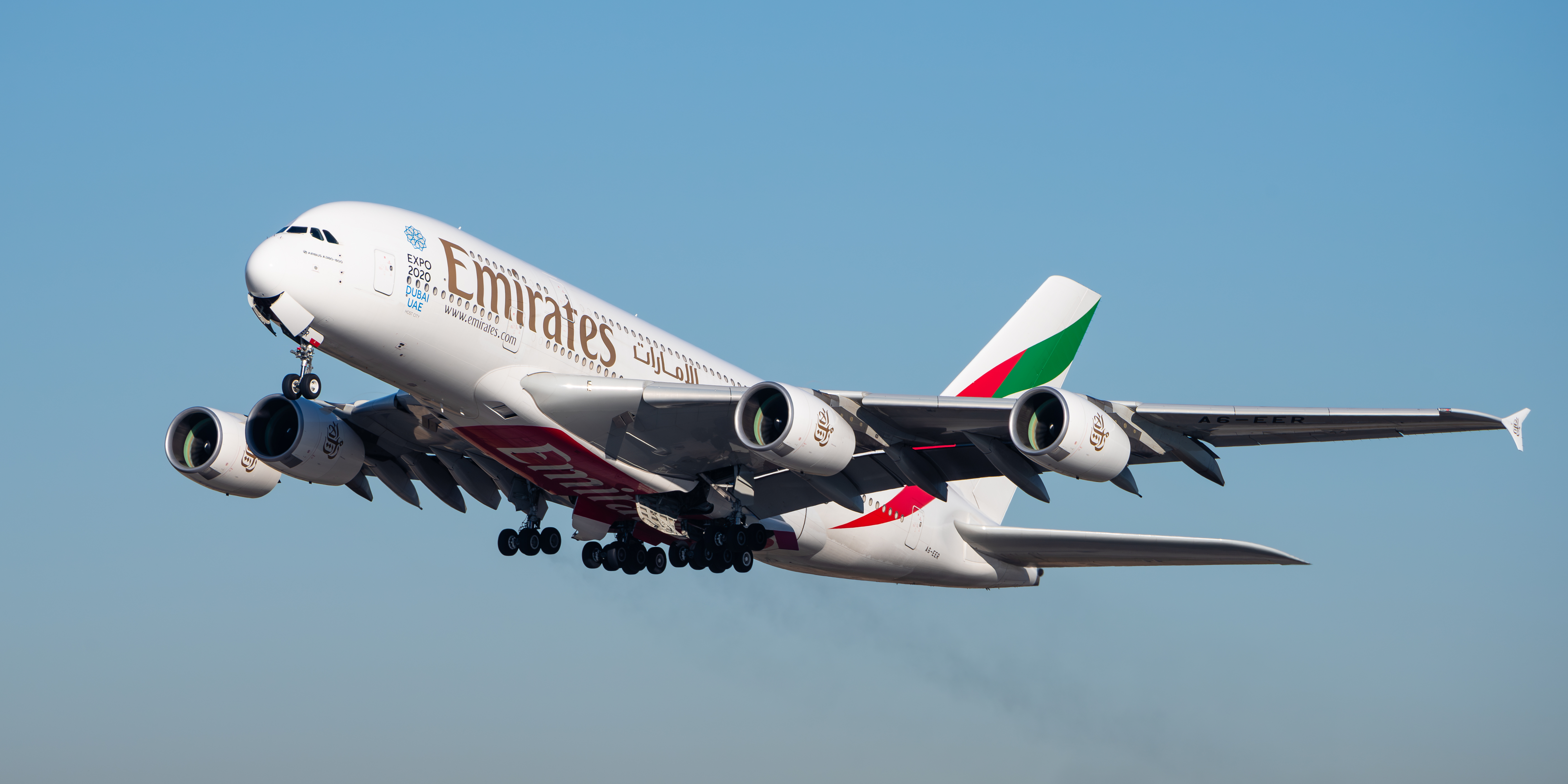 Emirates Airbus A380-861 (reg. A6-EER, msn 139) at Munich Airport (IATA: MUC; ICAO: EDDM) departing 26L. See also : File:Emirates Airbus A380-861 A6-EER MUC 2015 01.jpg File:Emirates Airbus A380-861 A6-EER MUC 2015 03.jpg File:Emirates Airbus A380-861 A6-EER MUC 2015 04.jpg File:Emirates Airbus A380-861 A6-EER MUC 2015 05.jpg